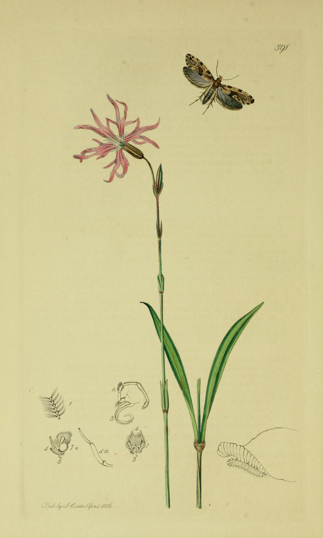 An illustration from British Entomology by John Curtis. Lepidoptera: Euplocamus mediellus or Morophaga boleti (Boletus Tinea)Valid name choragella